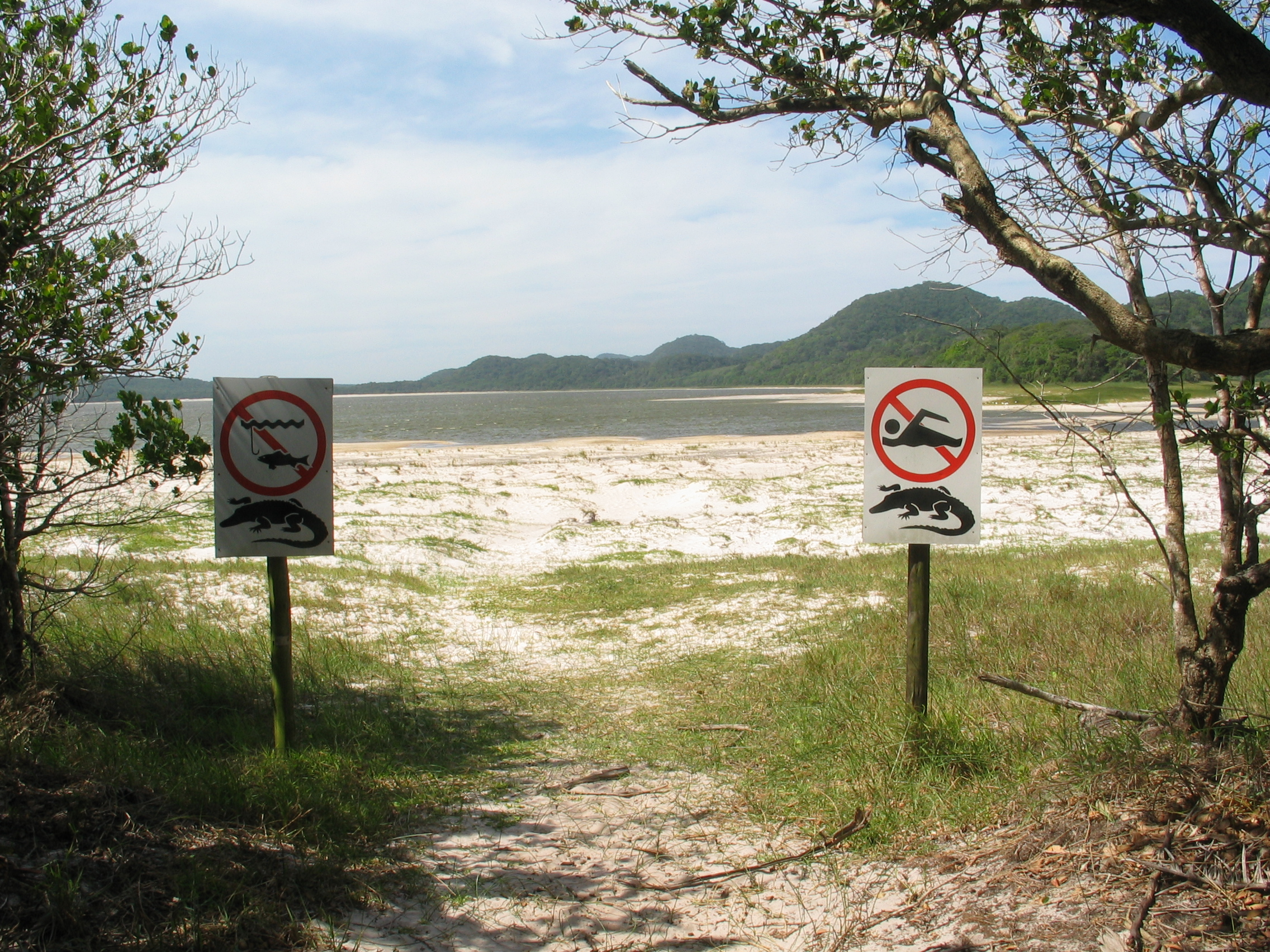 No fishing and swimming in the Greater St. Lucia Wetland Park, South Africa